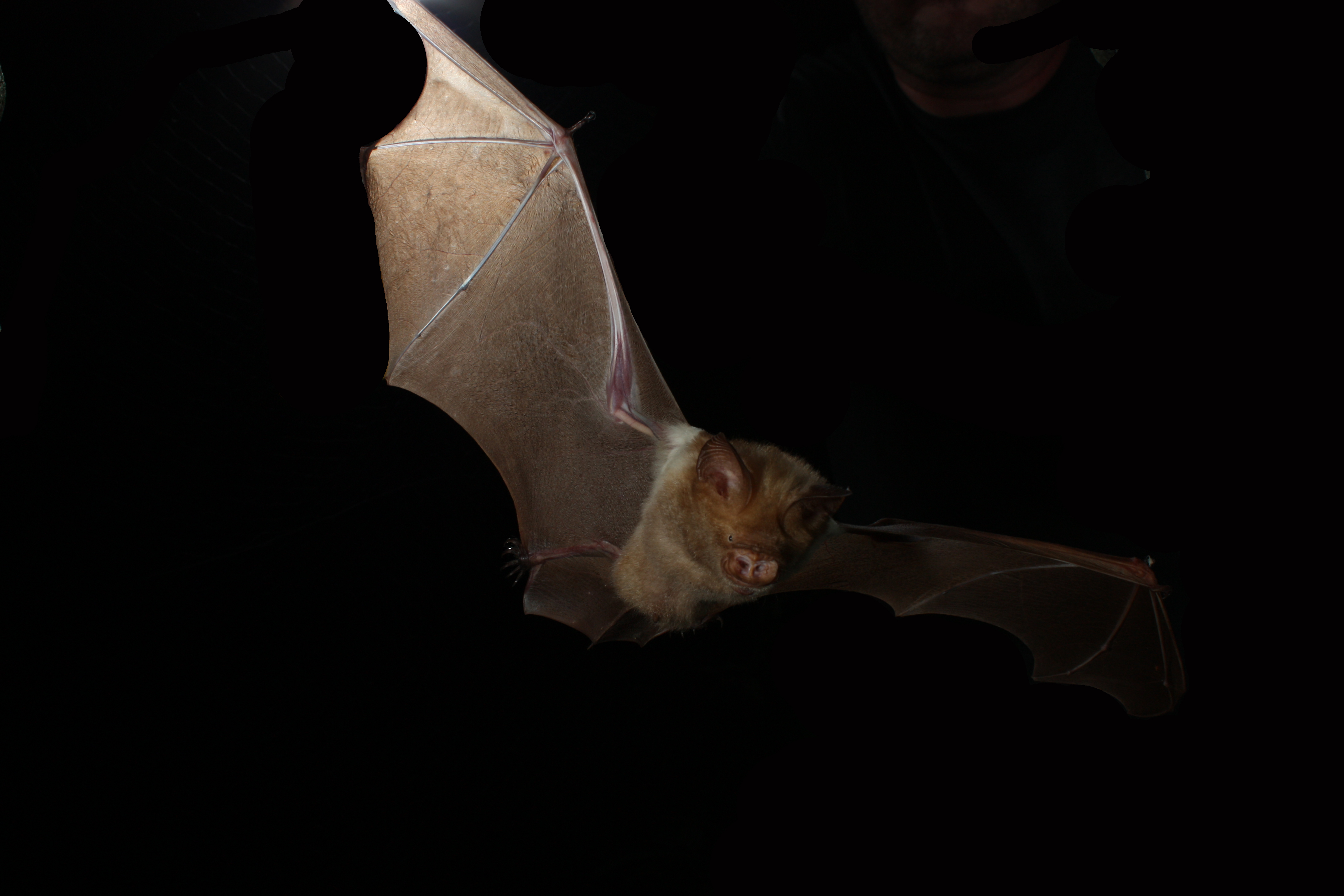 Diadem leaf-nosed bat in far north Queensland